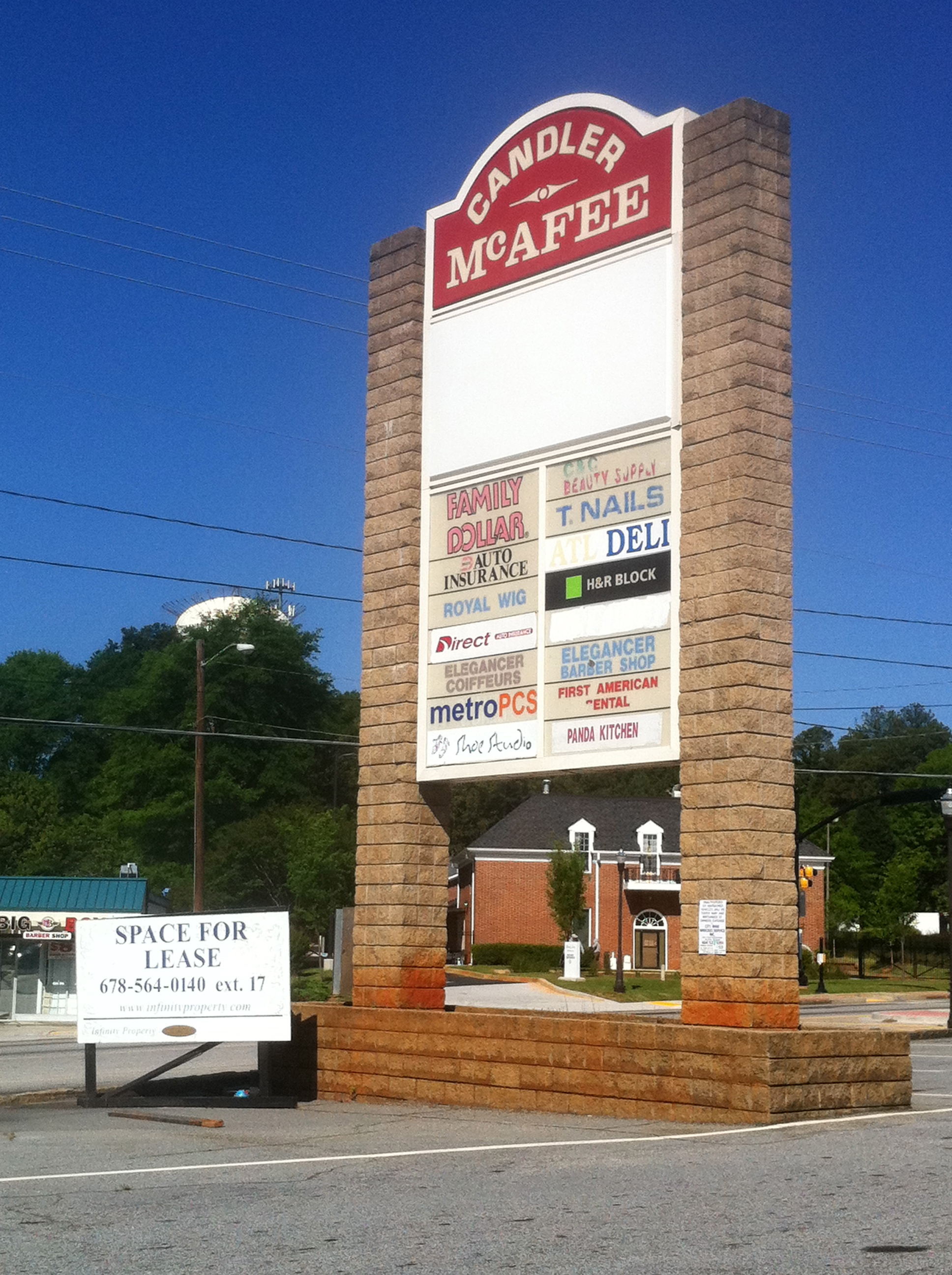 Shopping center at Candler and McAfee, Candler-McAfee CDP, DeKalb County, Georgia